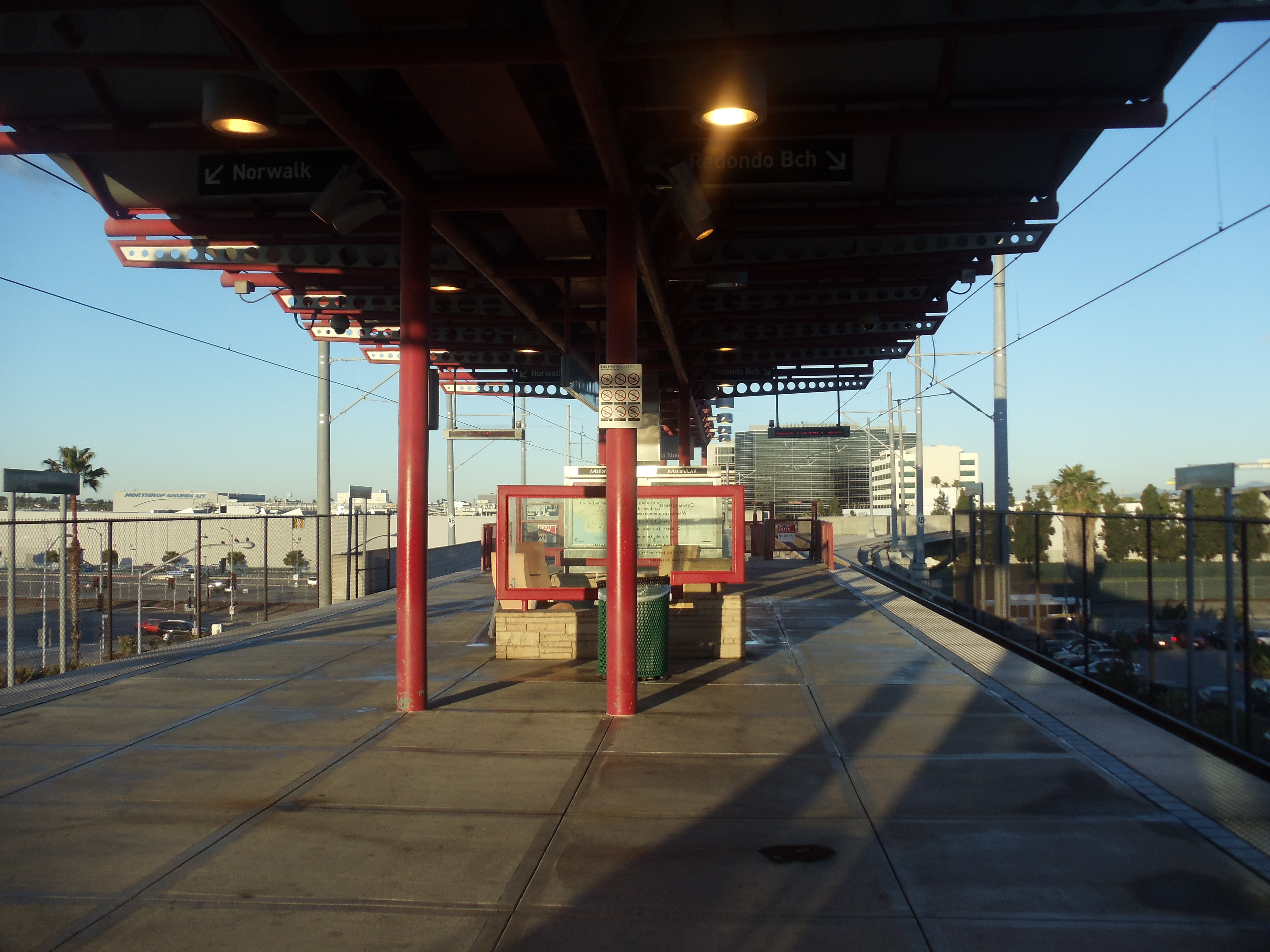 Aviation station platforms.